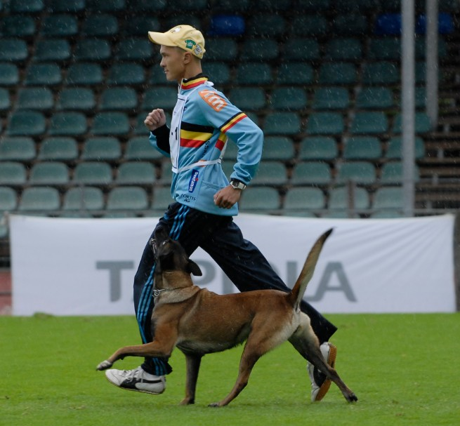 Obedience Phase: Felix Ho Heeling with Eclipse van de Duvetorre in 2010 FCI World Championship Finland 中文（香港）: 服從環節：何斐然與日蝕在2010年芬蘭FCI世界賽中的隨行